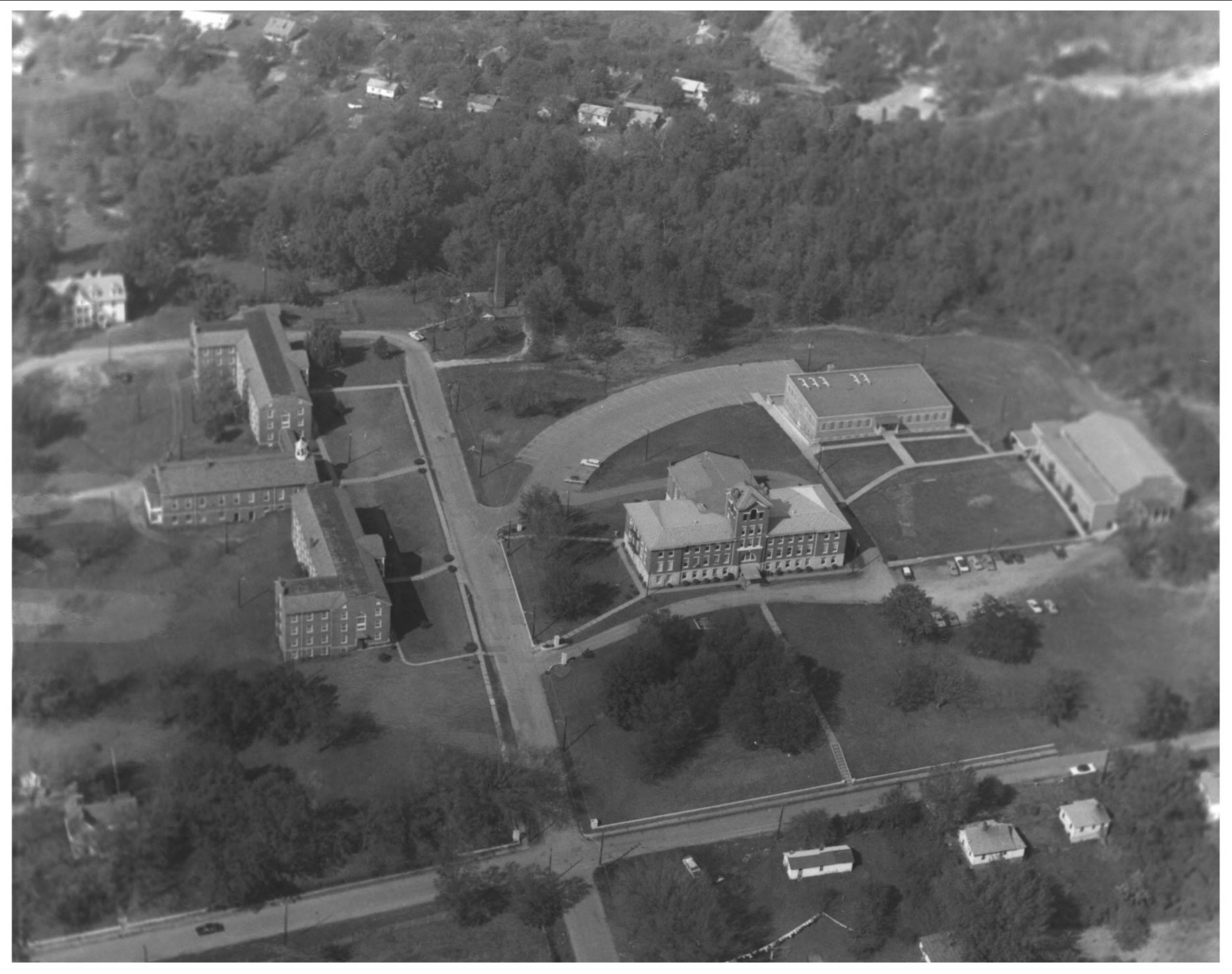 Aerial view of the Morristown College campus in January of 1983